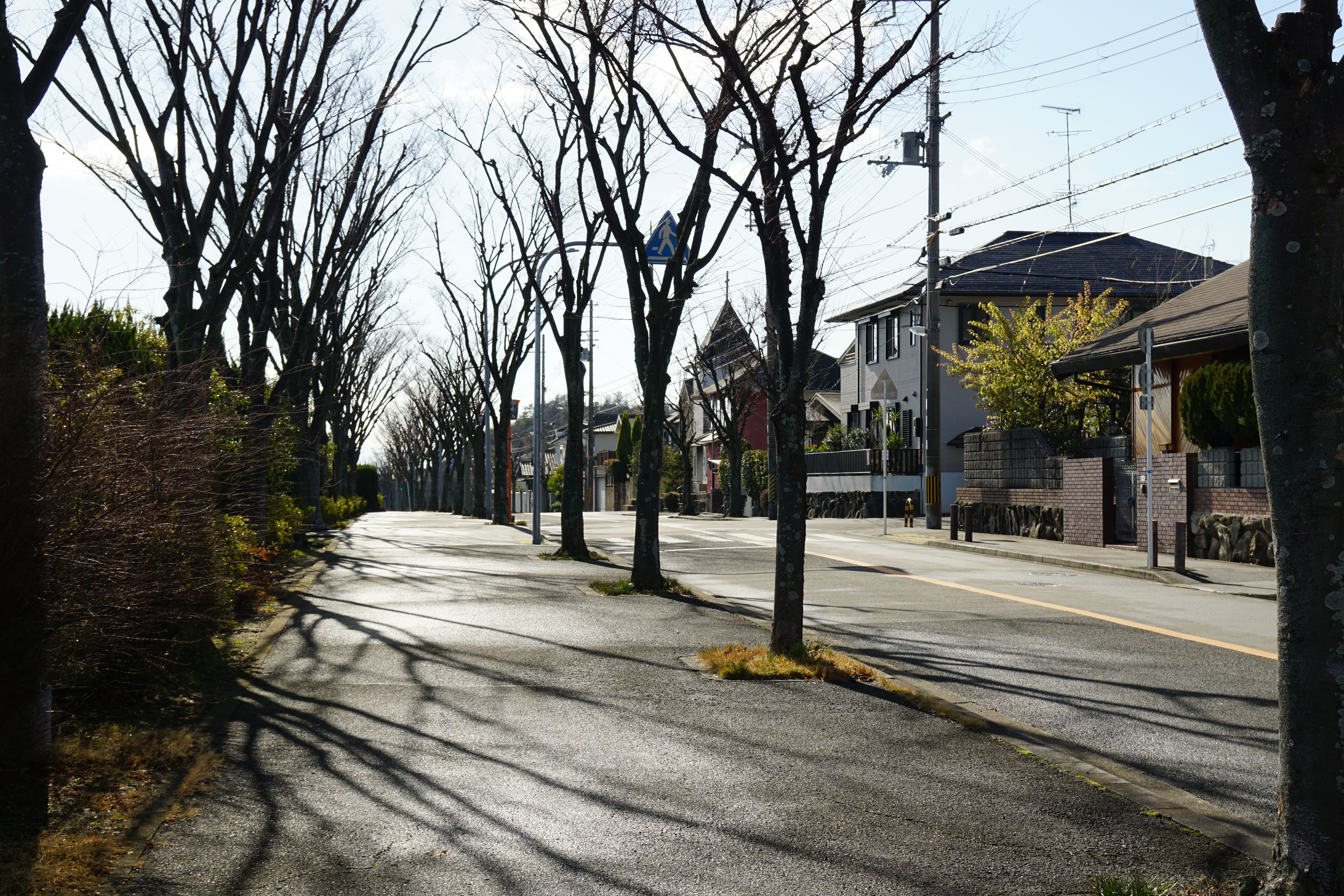 At Nanpeidai 5-chome, Takatsuki, Osaka prefecture, Japan.